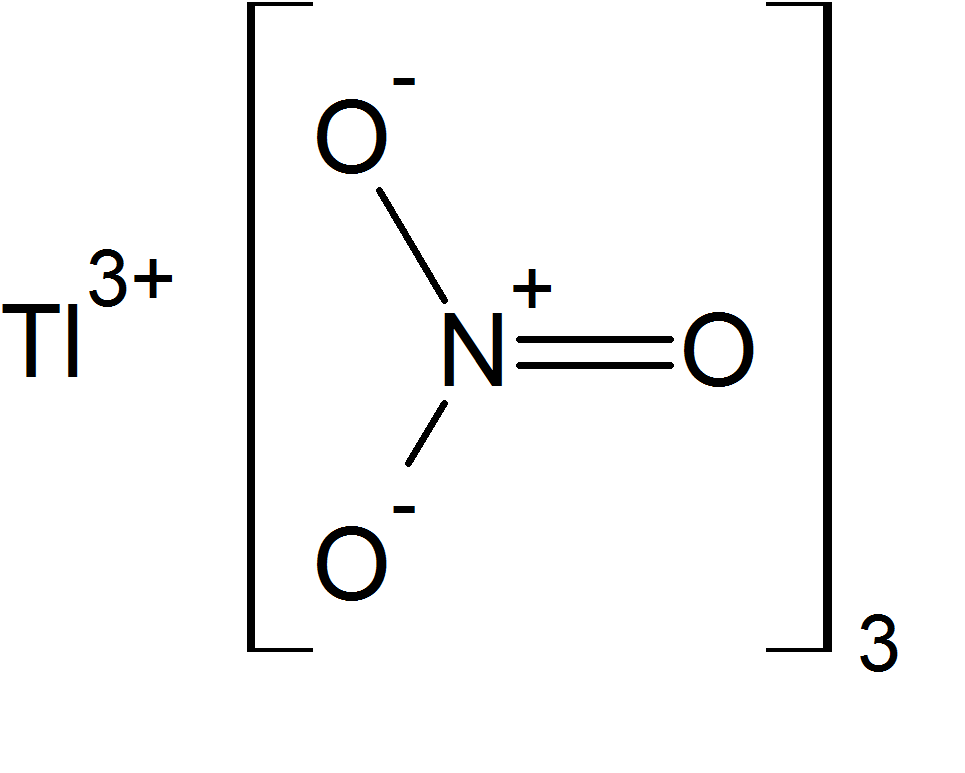 Formula of Thallium(III) nitrate